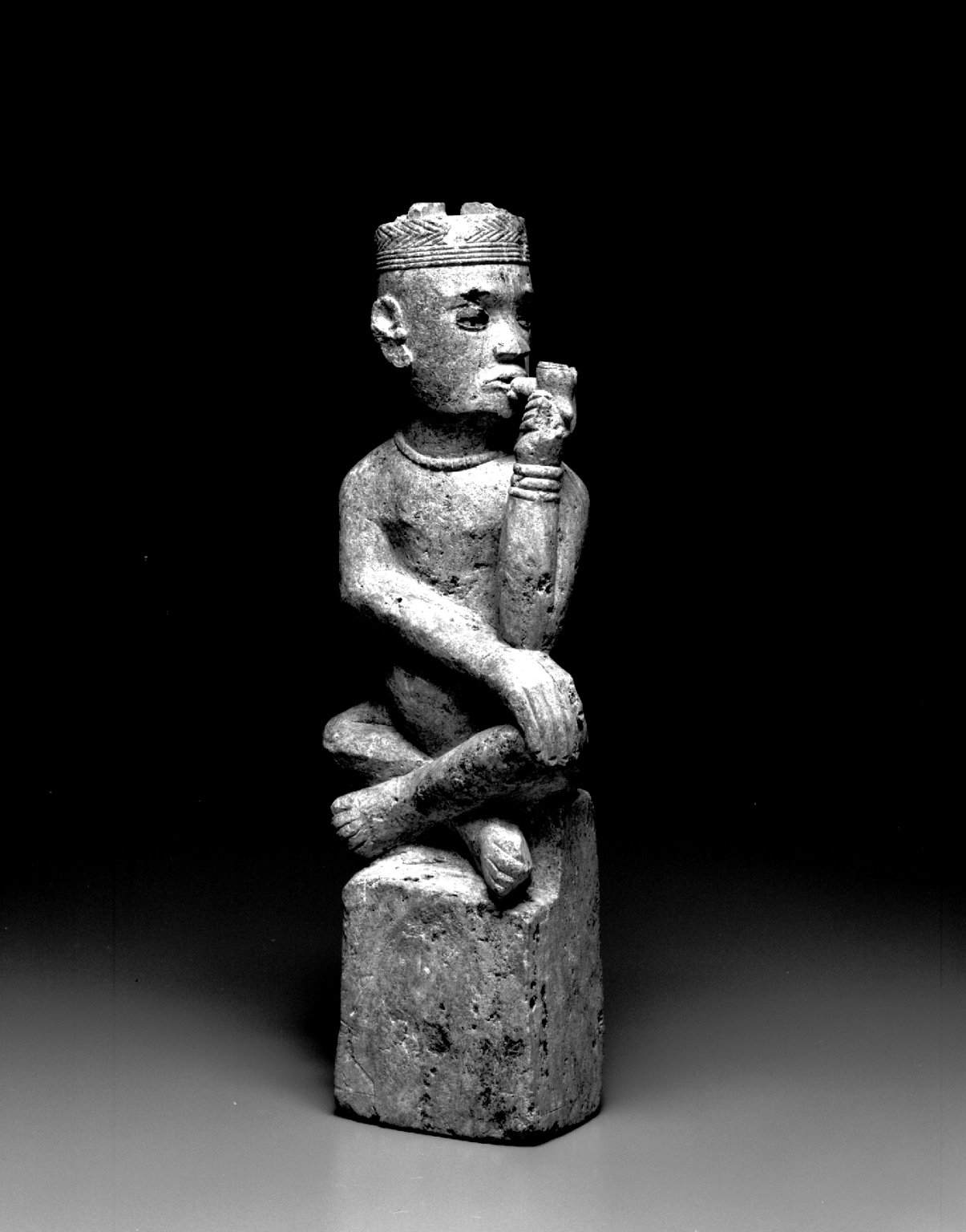 Male figure sitting cross-legged on rectangular base. Right hand rests on left knee; left hand holds short thick pipe to mouth. Head turns to left. Eyes black in color. Wears cap with leopard teeth, beaded bracelets, and a necklace. Condition is good.